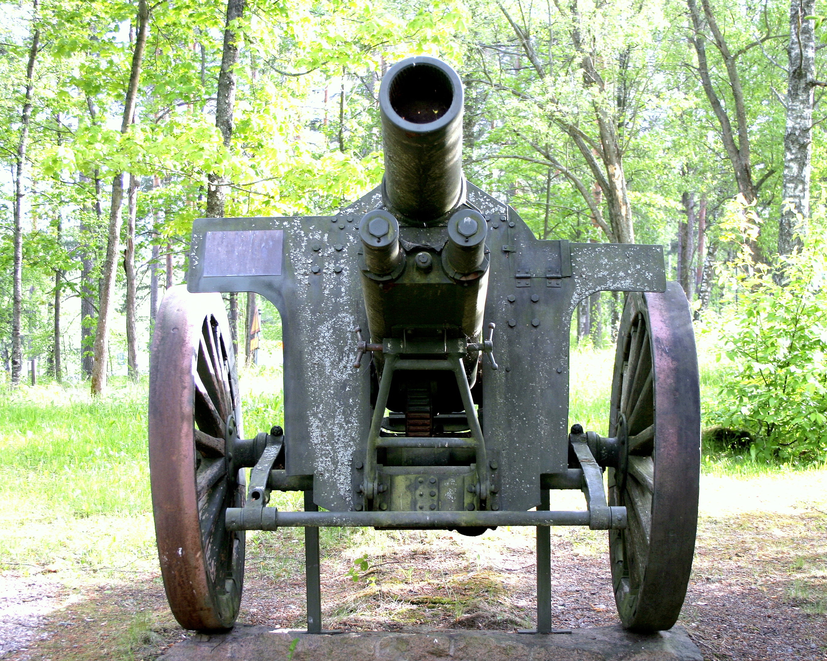 Canon de 155 C Mle 1915 St. Chamond, a French 155 mm heavy howitzer, 1915, Artjarvi, Finland. 24 howitzers were bought to Finland in 1940. They were delivered from February to April and addressed to the 8th heavy artillery group.